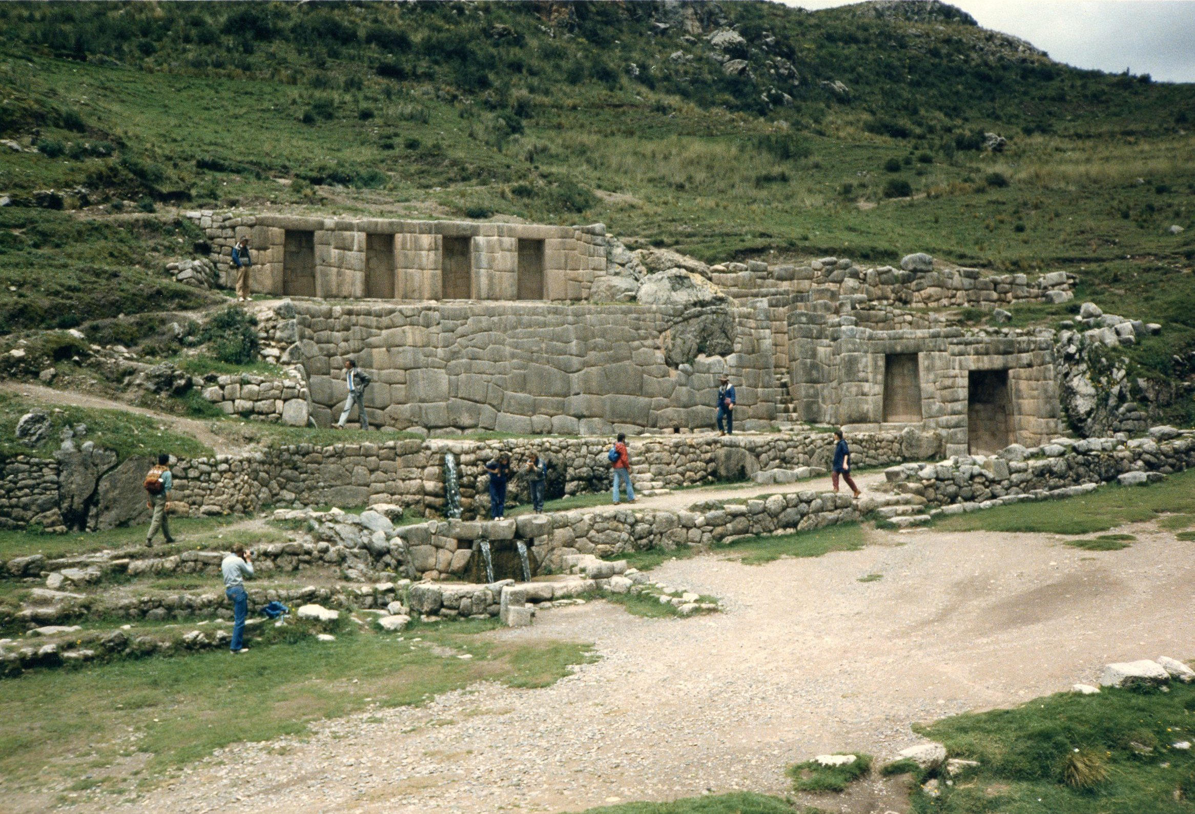 Inca site of Tambomachay near Cusco, Peru